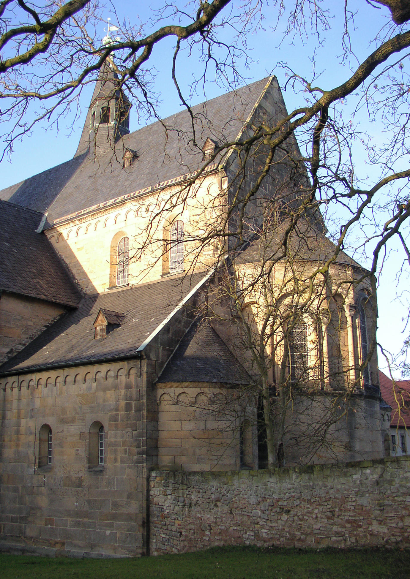 Romanesque church Hamersleben in Saxony-Anhalt, Germany